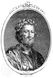 Kenneth II, King of Scotland